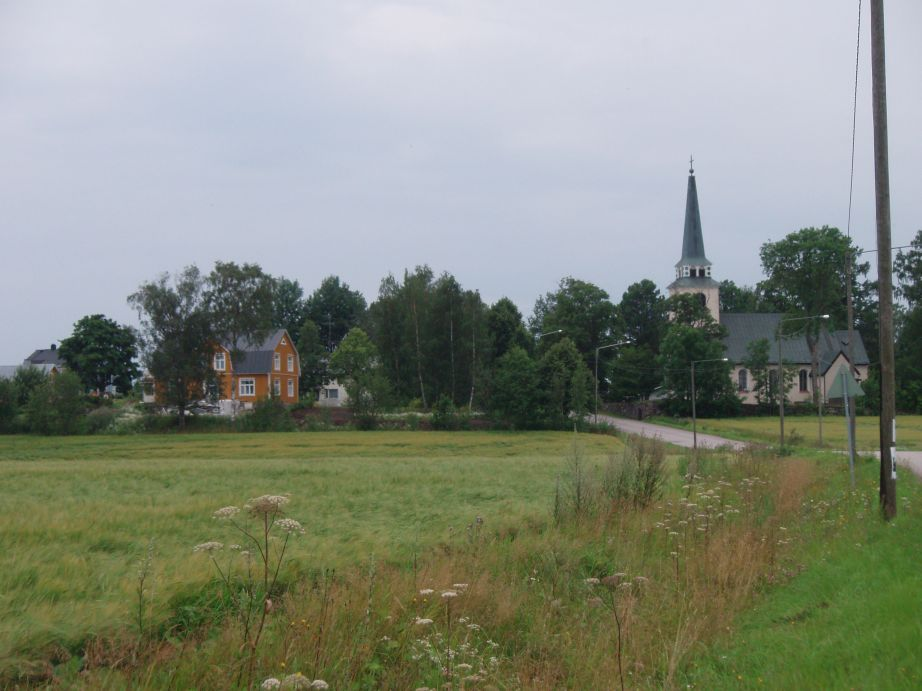 Degerby church in Degerby, Ingå, Finland